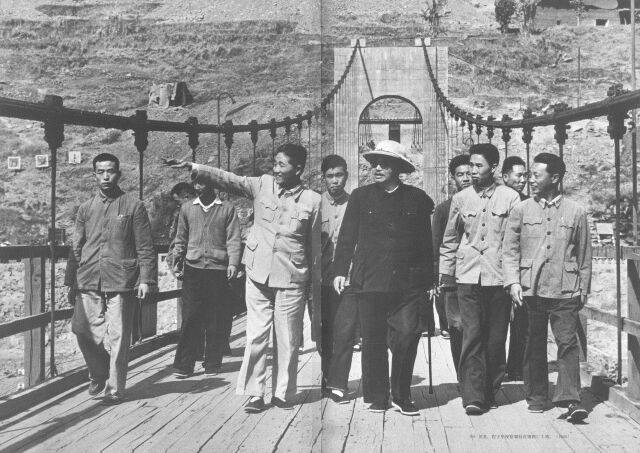 1966年，贺龙、程子华视察攀枝花钢铁厂工地